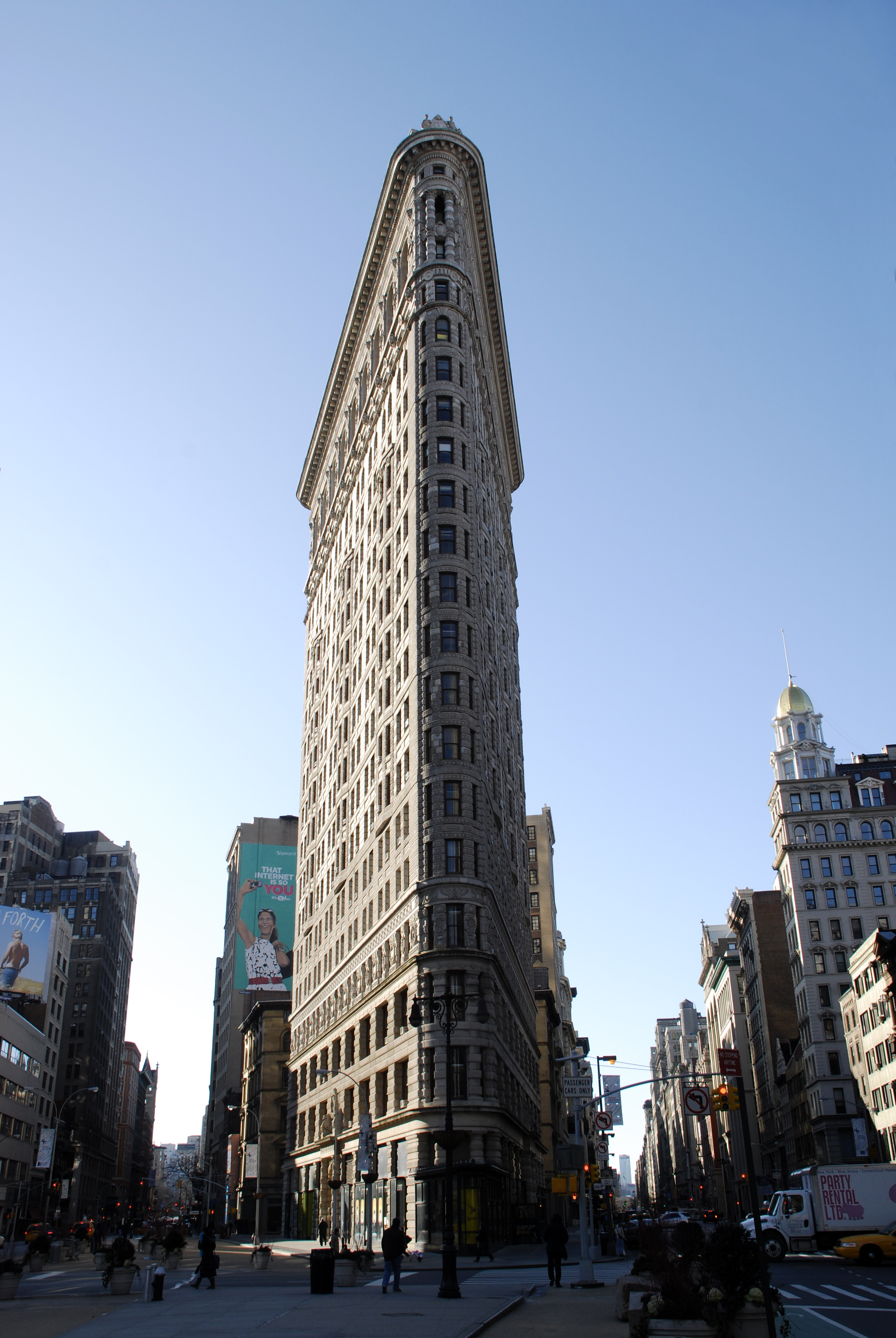 Fuller building (Flatiron)